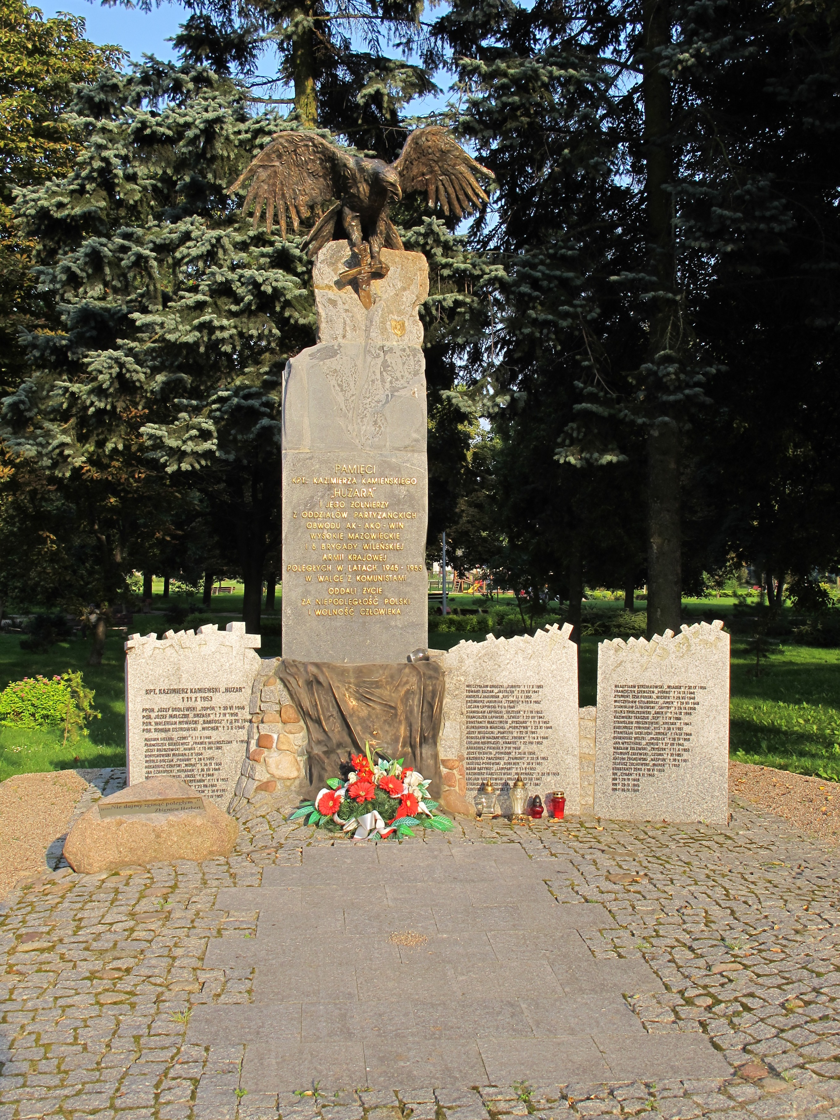 Monument comemorating cpt. Kazimierz Kamieński „Huzar” and his AK guerilla troops, by 1 Maja street in Wysokie Mazowieckie, podlaskie, Poland